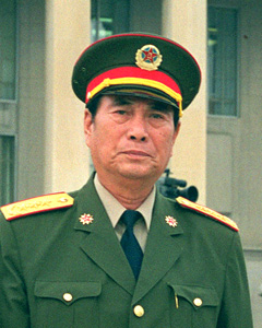 Zhang Wannian (張 万年), vice chairman of the Central Military Commission, Peoples Republic of China